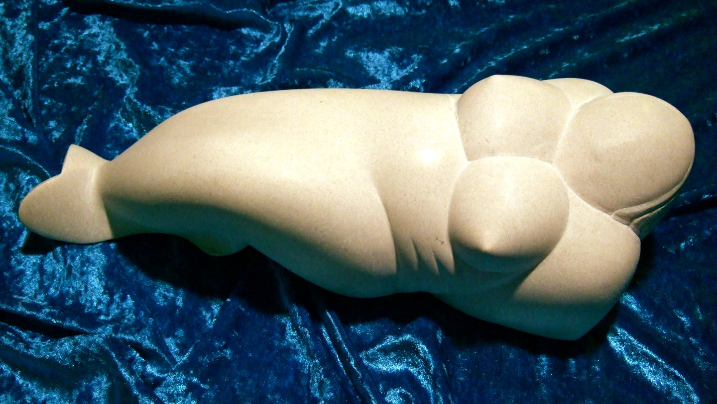 Sirena - Mermaid by Miroslav Zupancic, Croatia